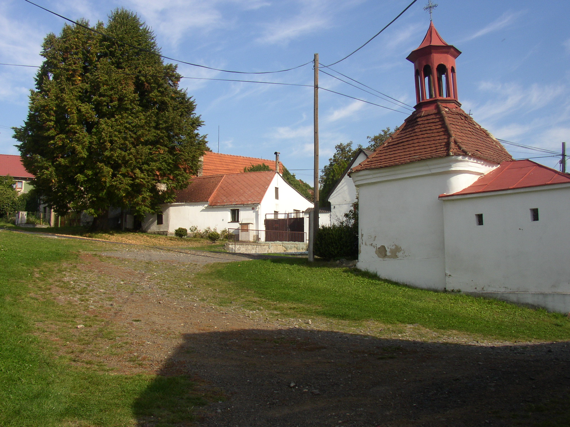 Chrášťany, Litoměřice District, Czech Republic. Old upper common with an 1825 chapel - a view from SW corner of the common.